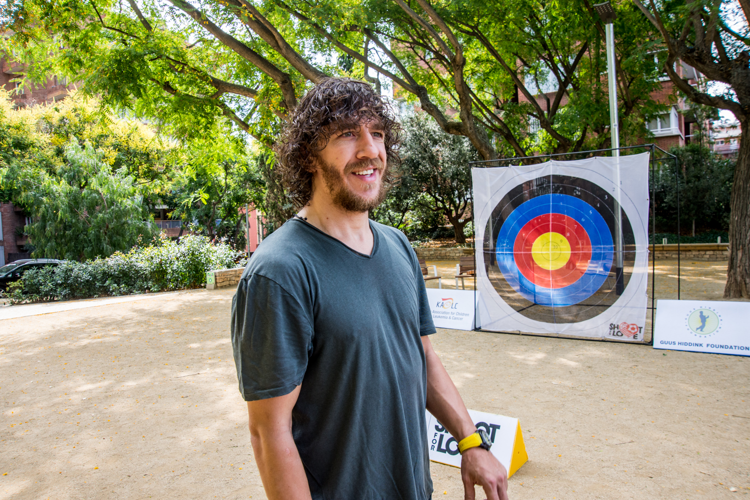 Carles Puyol on Shoot for Love Challenge